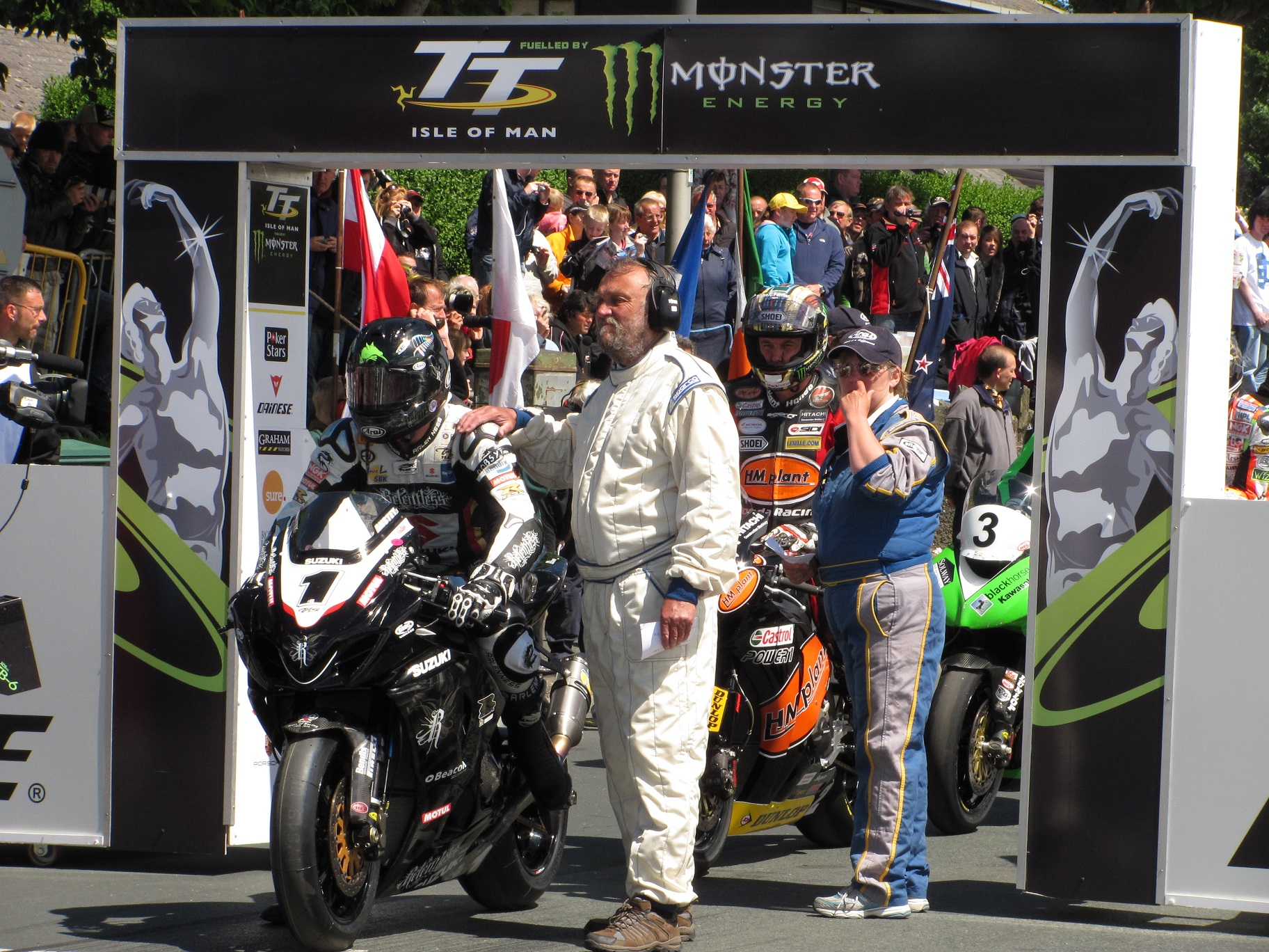 Description : Isle of Man TT Races Date : 10th June 2010 Source : 11th Milestone at en.wikipedia Permission See below